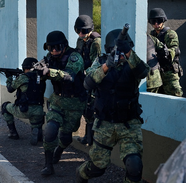 Mexican army in tactical gear and current Mexican digital BDU